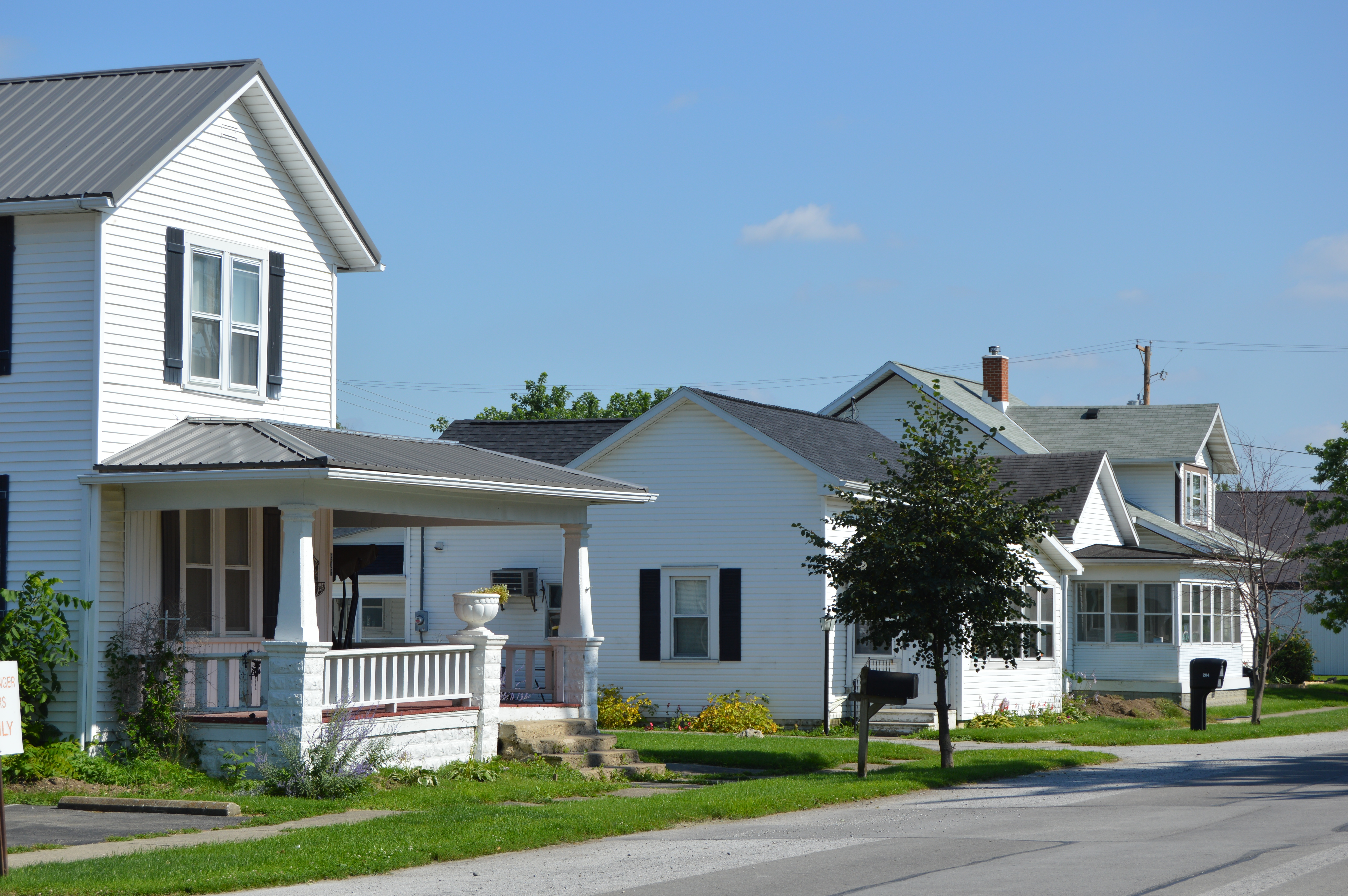 Houses on the eastern side of Main Street (State Route 197) north of the Auglaize Street intersection in Buckland, Ohio, United States.